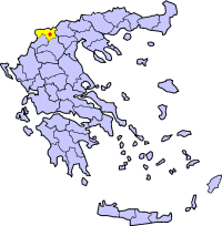 Vevi (Florina Prefecture) village locator map in Greece.